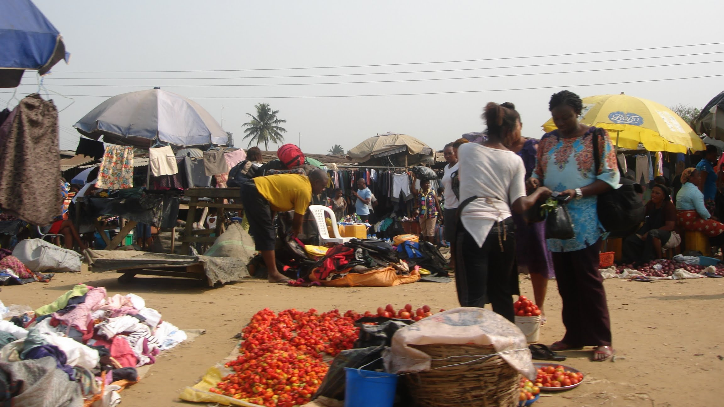 Hawkers at Market in Igwuruta, Rivers State This is an image of "African people at work" from Nigeria